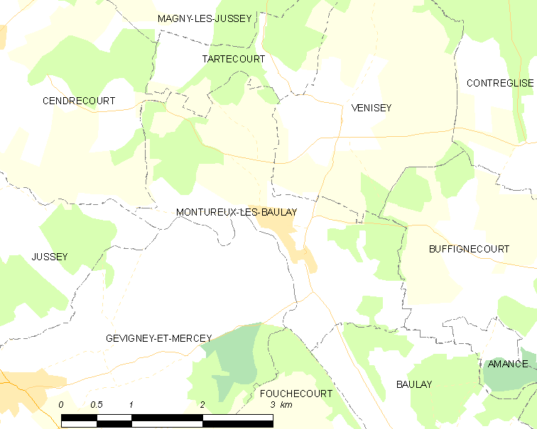 Map of French municipality